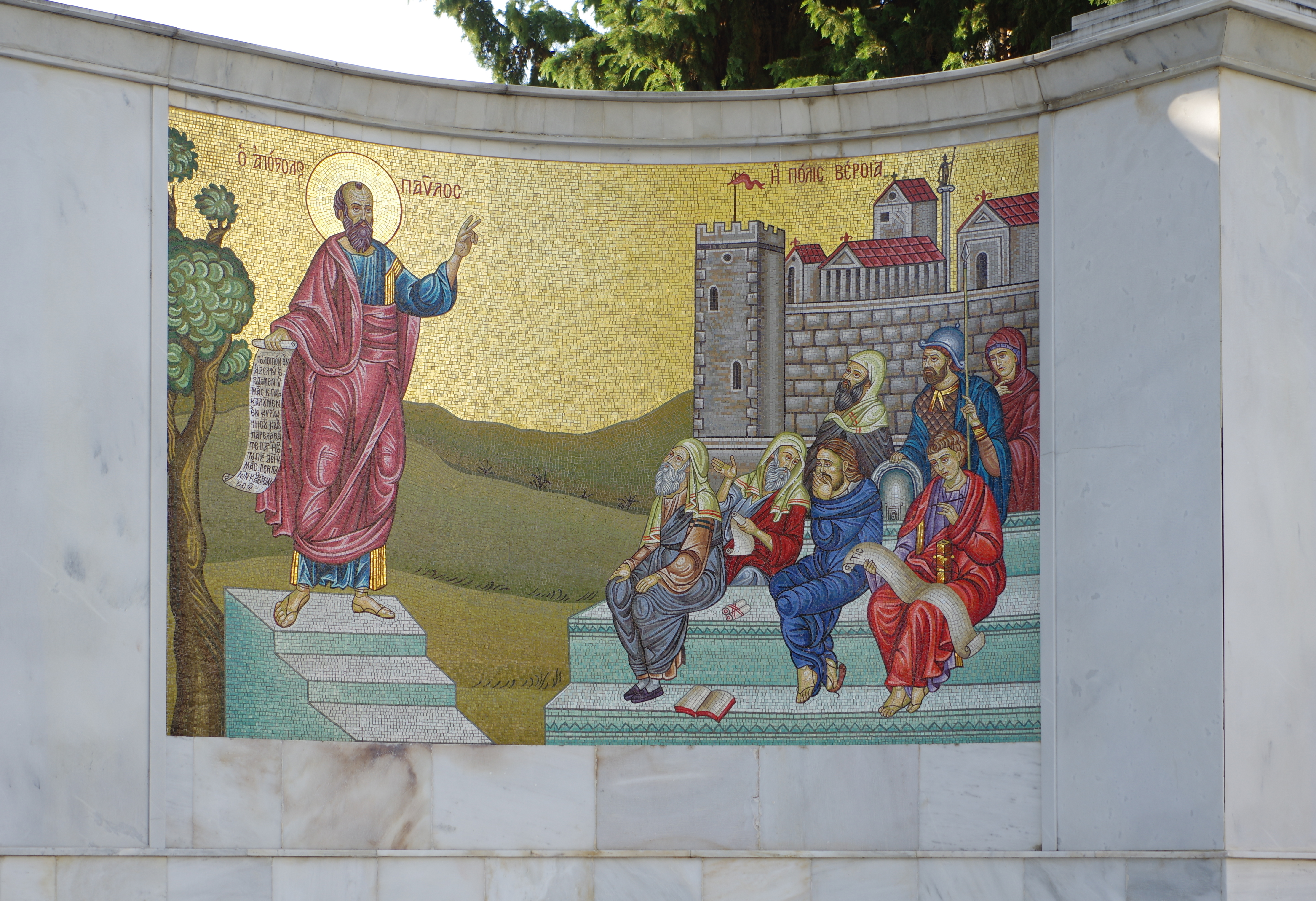 Greece, Veria, Saint Paul altar